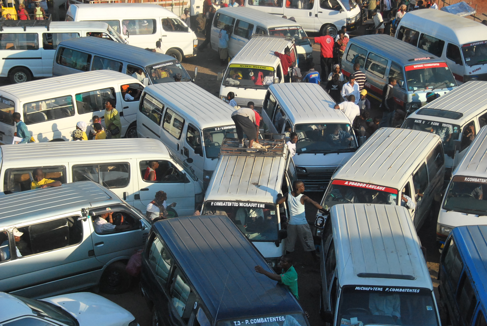 Traffic jam in Maputo, Mozambique